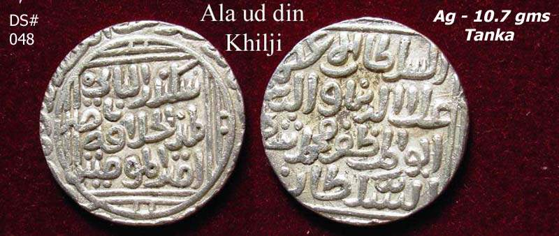 Image of coin from my own cabinet photographed and edited by me.